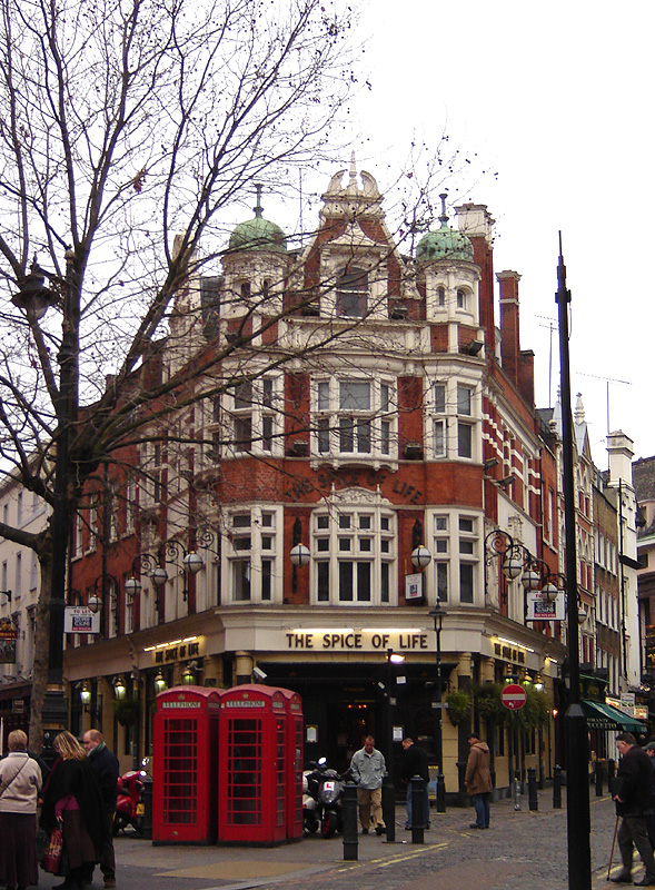 The Spice of Life pub, Soho, London. 14 January 2006. Photographer: Fin Fahey.